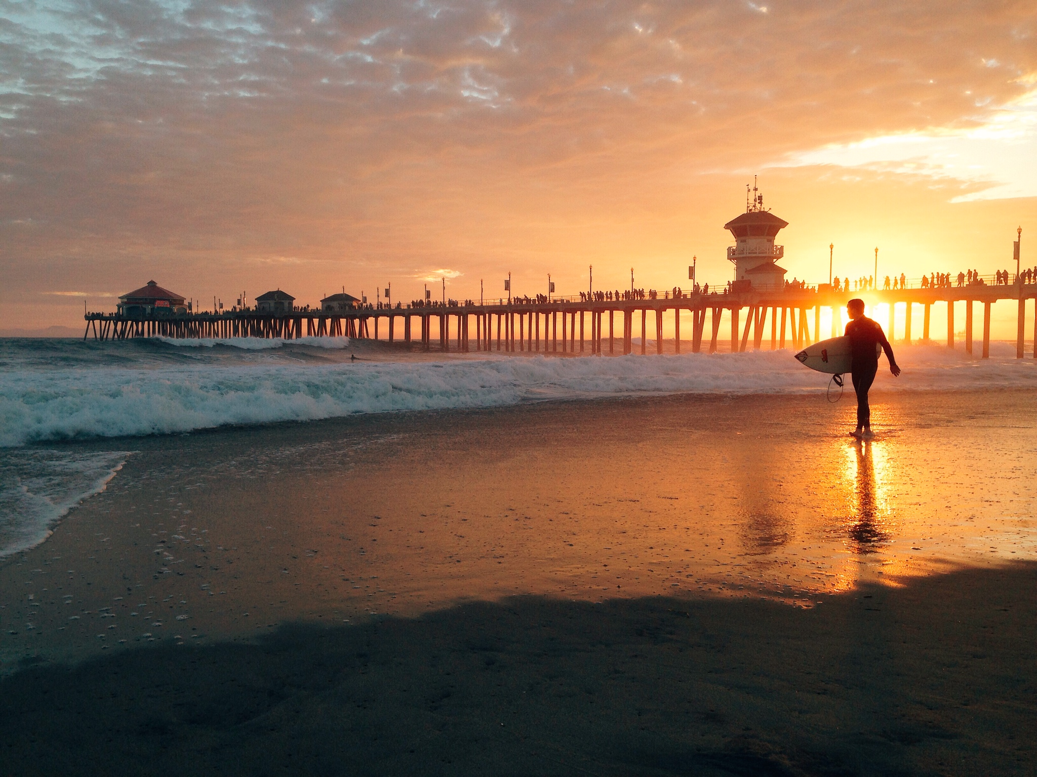 Sunset on Sunday, 9/7/14 at Huntington Beach Pier